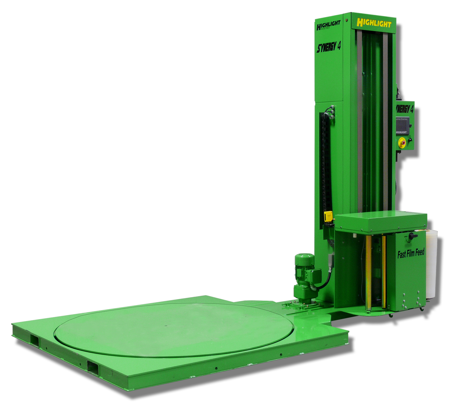 A semi-automatic turntable stretch wrapper, the Synergy 4 made by Highlight Industries.